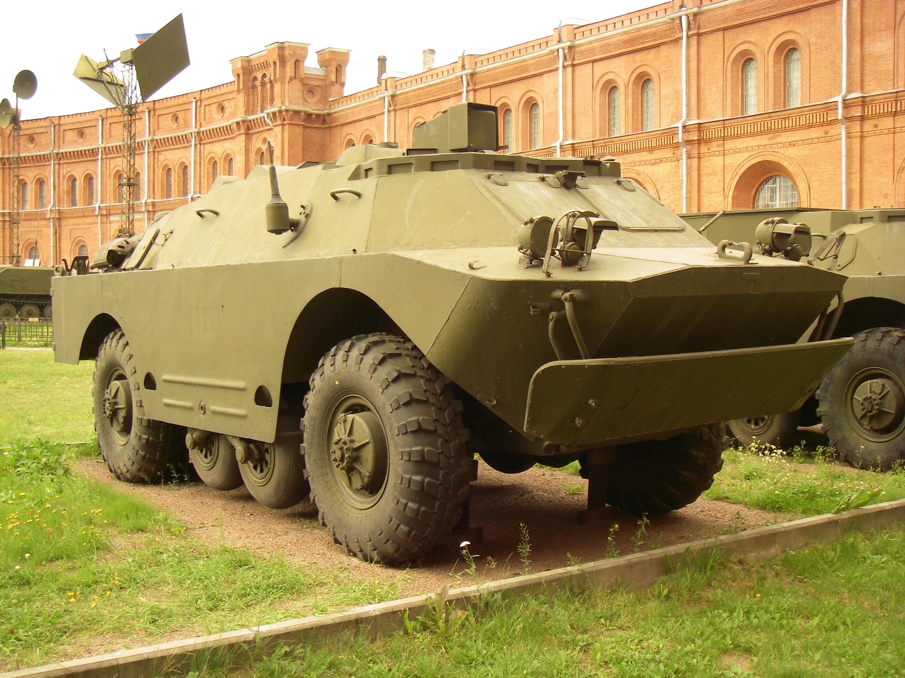 9P148 vehicle with 9M111, 9M111M, 9M113 missiles of anti-tank complex «Konkurs» in Saint Petersburg Artillery museum